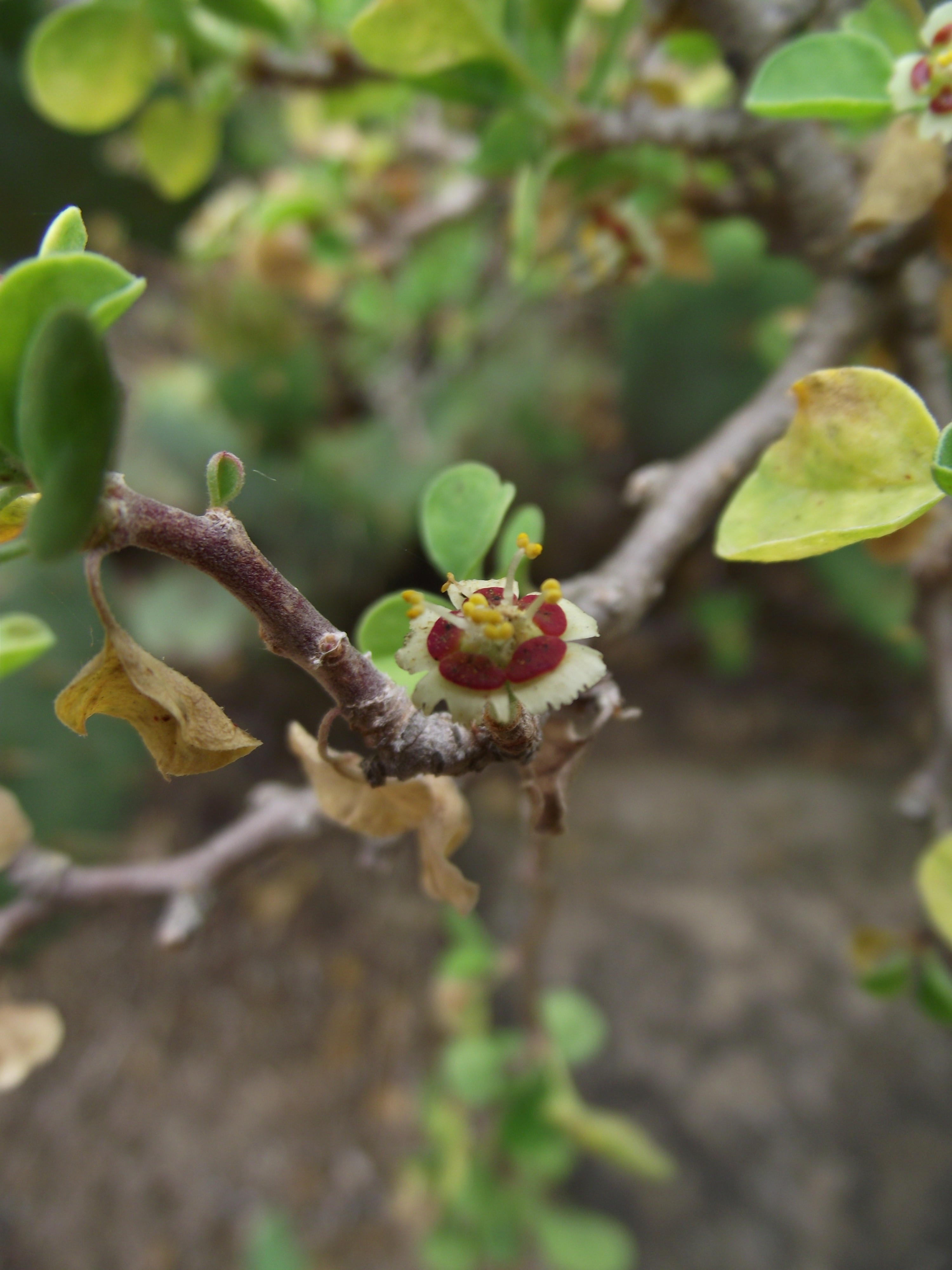 Euphorbia misera — Cliff spurge. At the Santa Barbara Botanic Garden, in Santa Barbara, California. Identified by sign.